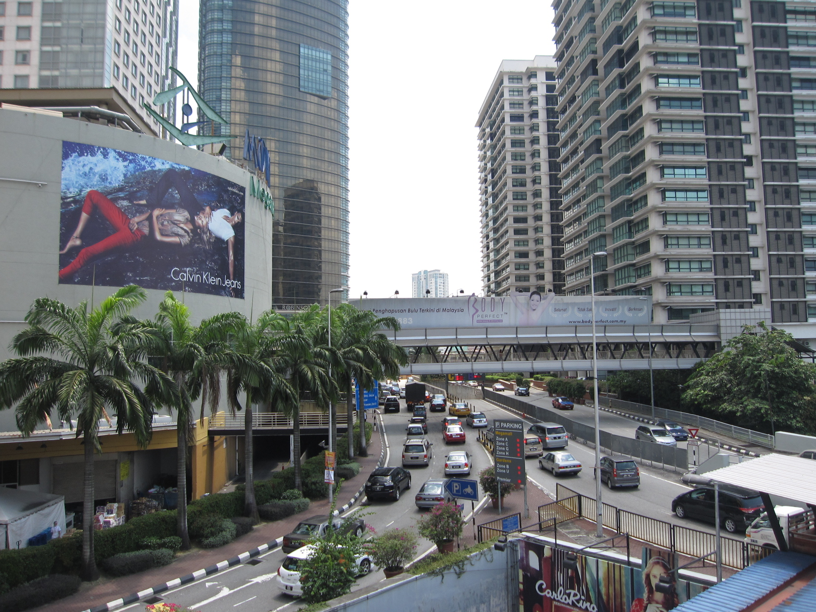 The Mid Valley Mega Mall, Kuala Lumpur. Mid Valley (left) is a huge shopping mall south of central Kuala Lumpur, Kuala Lumpur.